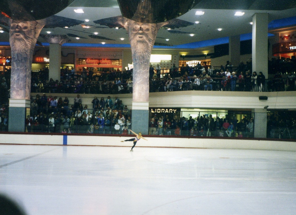 Tonya Harding practices for the 1994 Olympics. Location of picture is Clackamas Town Center in Portland, Oregon.